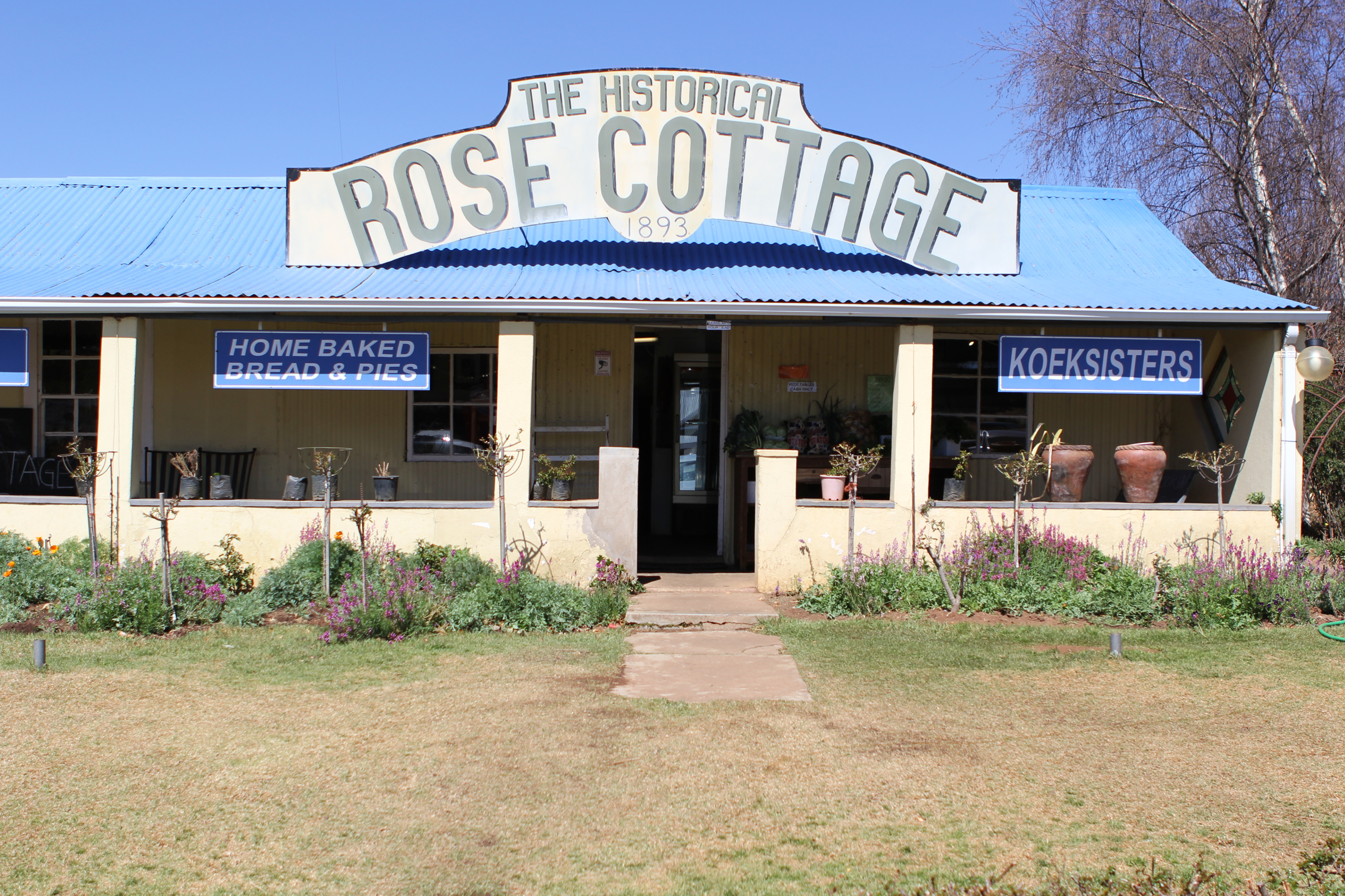 Koeksisters; a South African delicacy